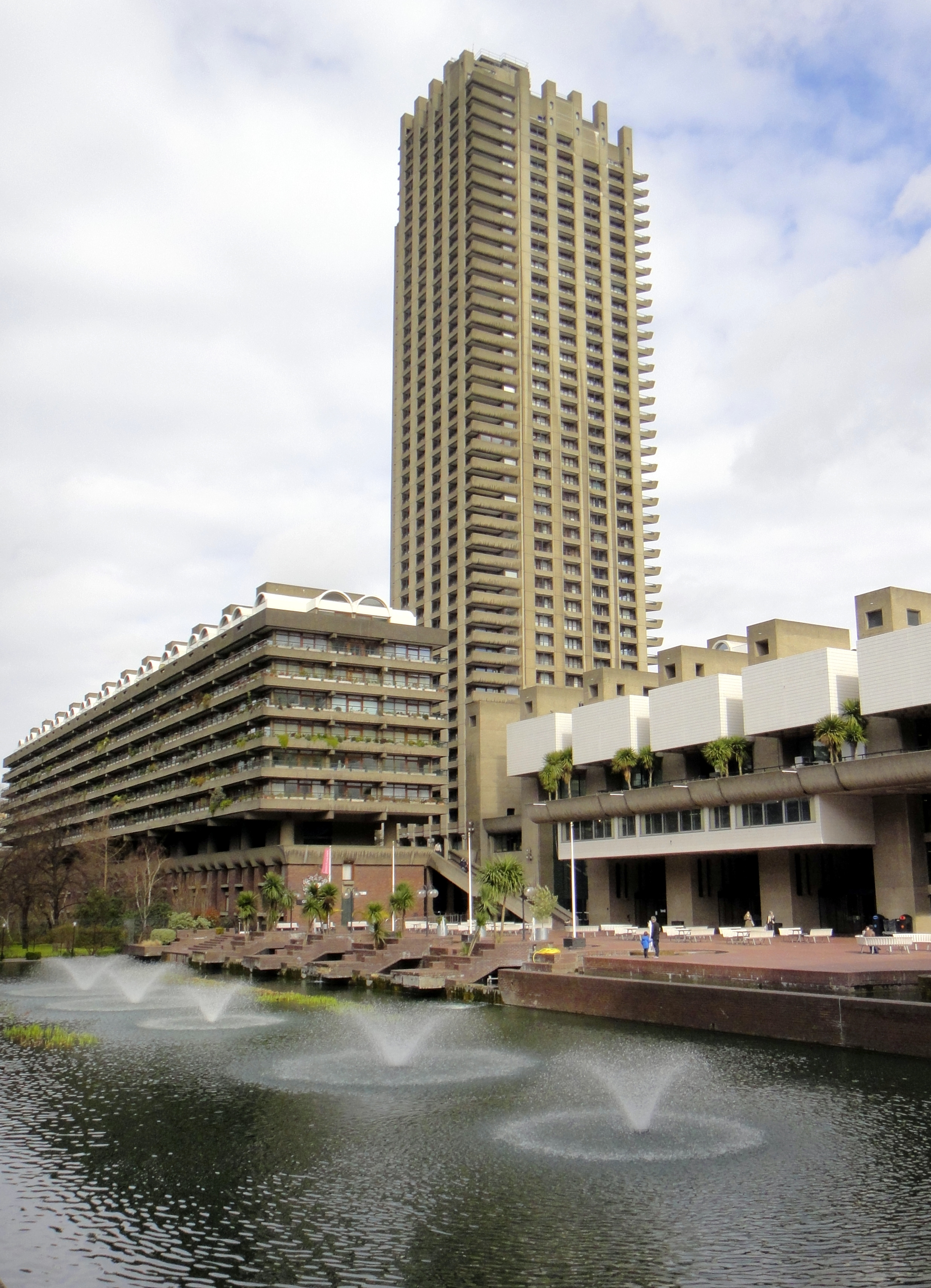 Inside Barbican Estate